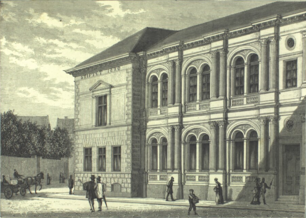 Niels Hemmingsens Gade, den til Sparekassen for København og Omegn i Helleggeiststræde opførte nye Bygning